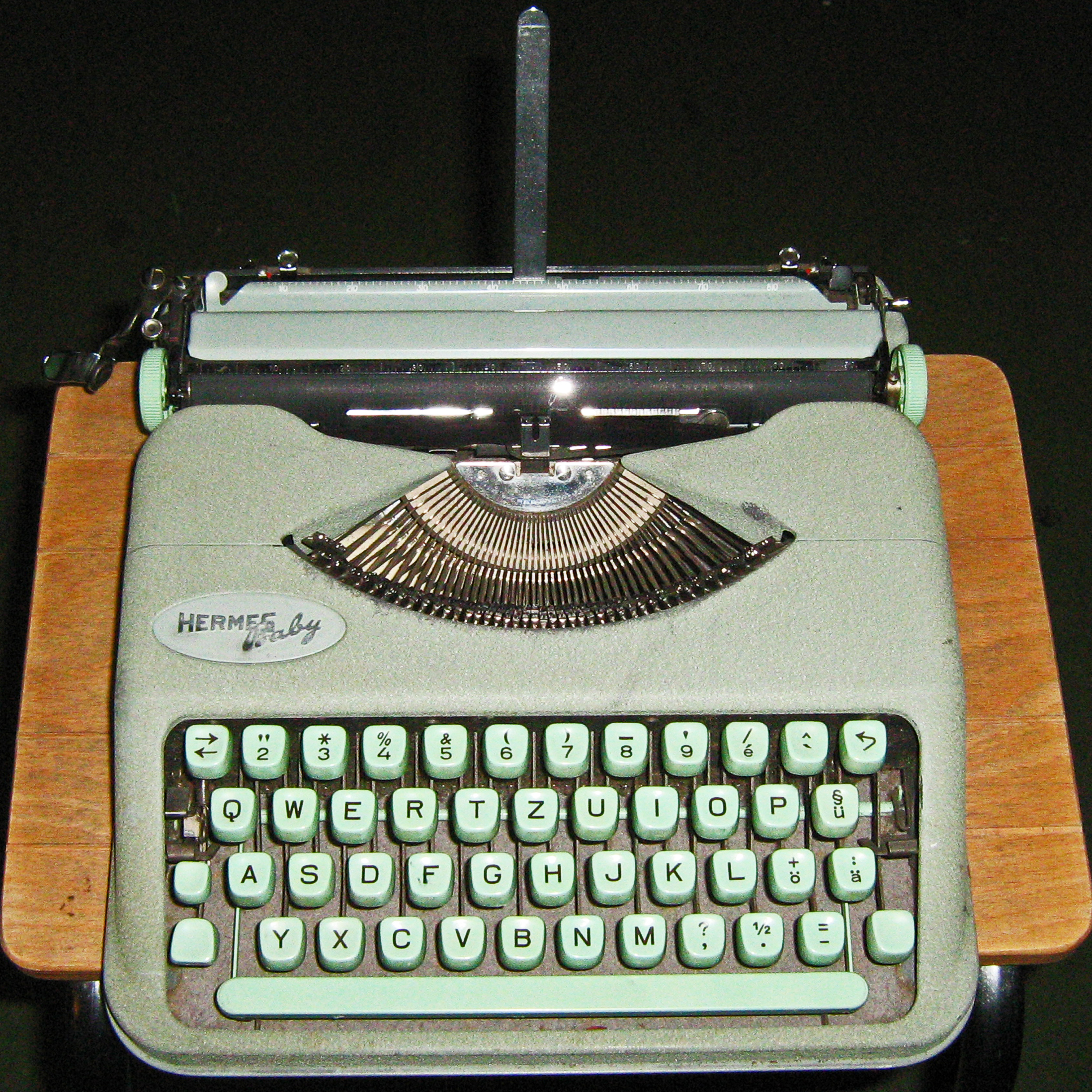 Portable typewriter "Hermes Baby" (green) with old Swiss German keyboard layout.